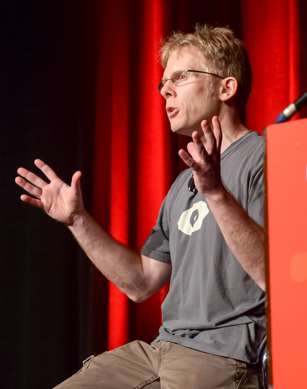 John Carmack during his keynote “The Dawn of Mobile VR” during the Game Developer Conference 2015